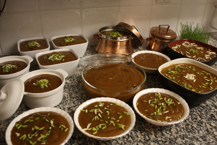 Samanu is one of the seven 'S's in a traditional table setting of Nowruz.